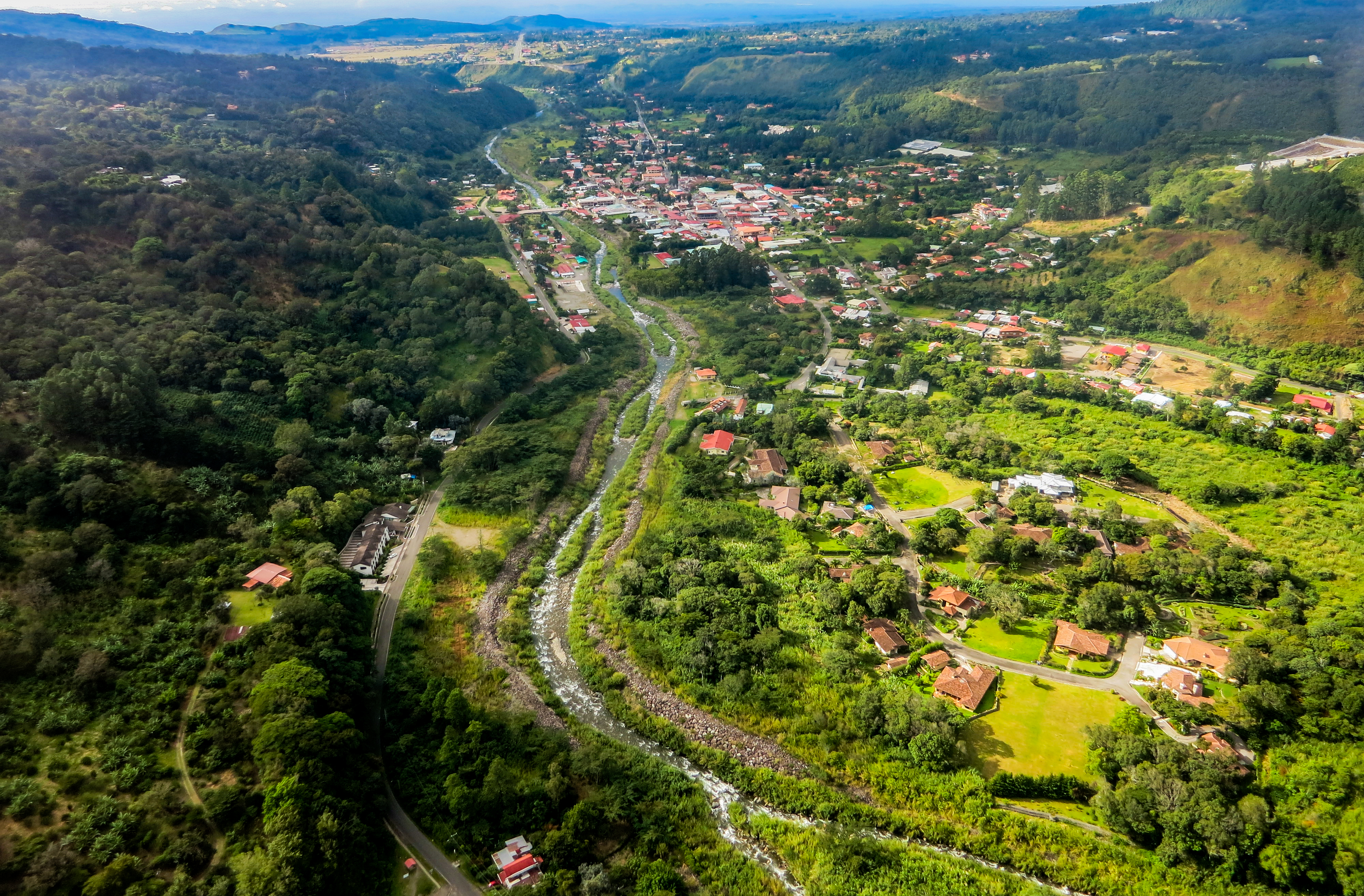 View from helicopter November 2014 of the town of Boquete, Panama